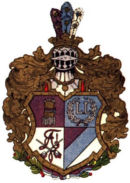 Coat of arms of student fraternity Fraternitas Academica